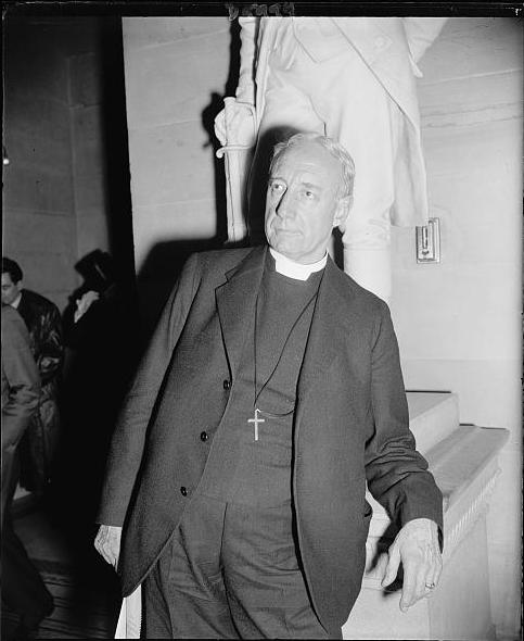 Former Senate Chaplain Zebarney Phillips. Additional info: Rev. Ze Barney Phillips, Chaplain of U.S. Senate, March 1939 Digital ID: (digital file from original negative) hec 26198 Reproduction Number: LC-DIG-hec-26198 (digital file from original negative) Repository: Library of Congress Prints and Photographs Division Washington, D.C. 20540 USA